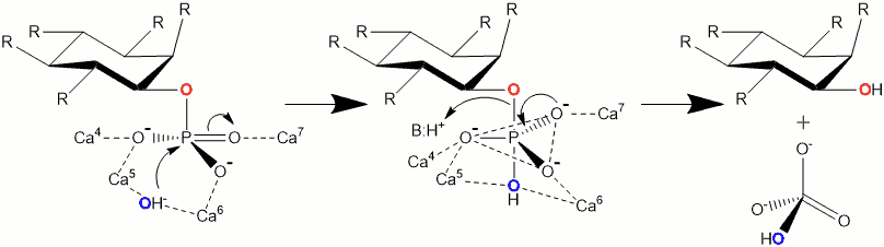 β-propeller phytase hydrolysis mechanism according to Shin et al.: Shin, S.; Ha, N. C.; Oh, B. C.; Oh, T. K.; Oh, B. H. (September 2001). "Enzyme mechanism and catalytic property of beta propeller phytase". Structure. 9 (9): 851–858. ISSN 0969-2126. PMID 11566134.